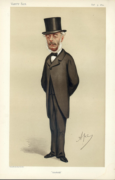 Caricature of The Rt Hon Stephen Cave MP. Caption read "Amends".